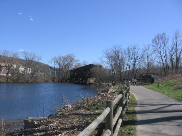 The Derby Greenway trail near the mouth of the Naugatuck River (where it flows into the Housatonic) is overpassed by the Waterbury Branch rail line.